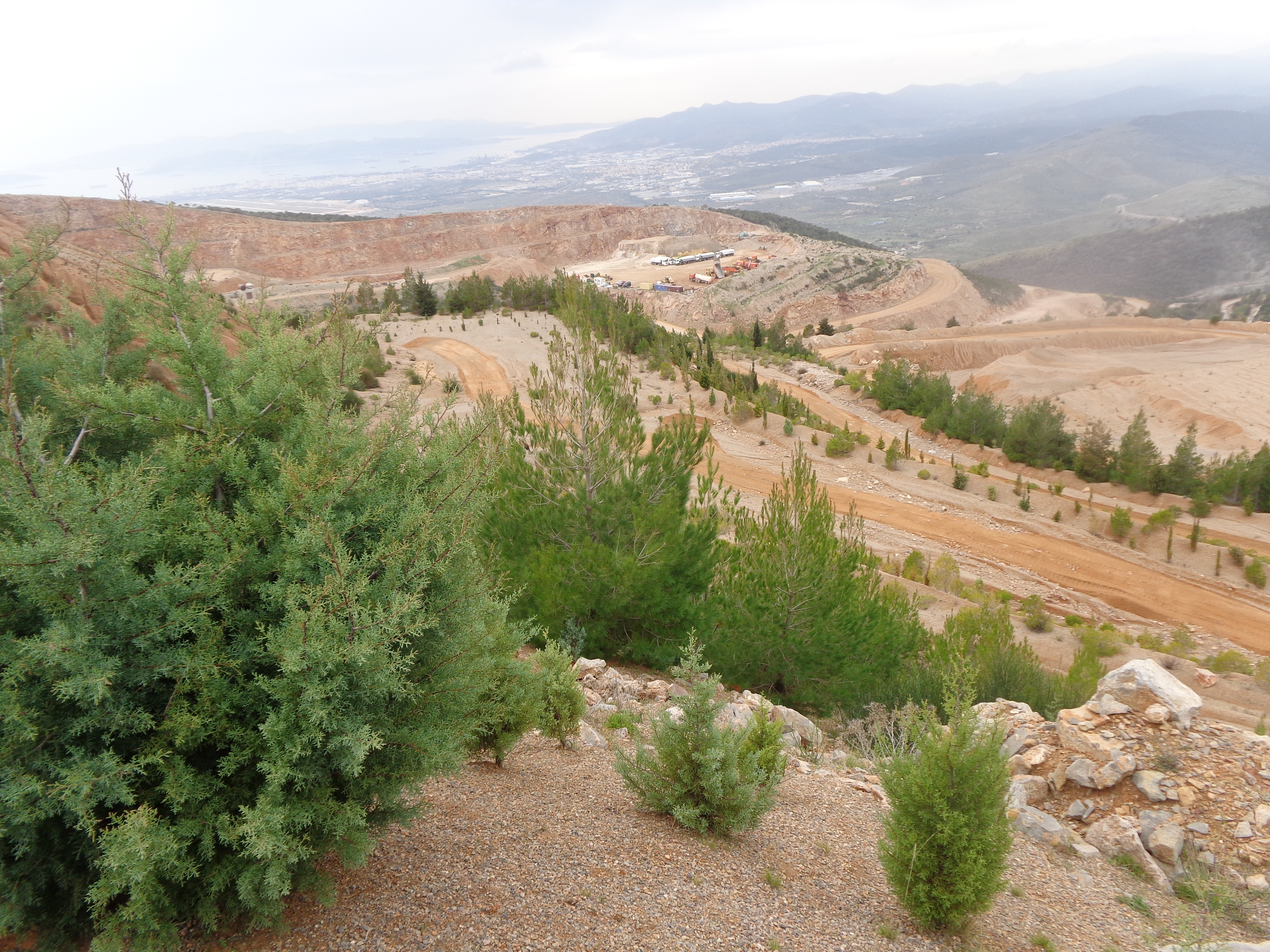 Aggregate Quarry Rehabillitation in Aspropyrgos Attica Greece